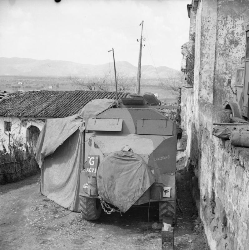 THE BRITISH ARMY IN ITALY 1944; An ACV (armoured command vehicle) of 23rd Brigade HQ at Francolise